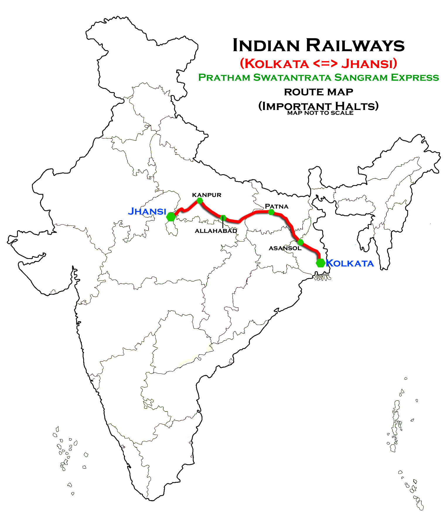 Pratham Swatrantata Sangram Express (Kolkata - Jhansi) route map